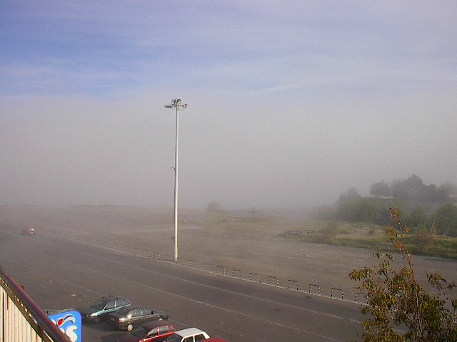 Piazza Mercato (Market Plaza) with the lighthouse in Santa Teresa di Riva (Messina, Sicily, Italy)